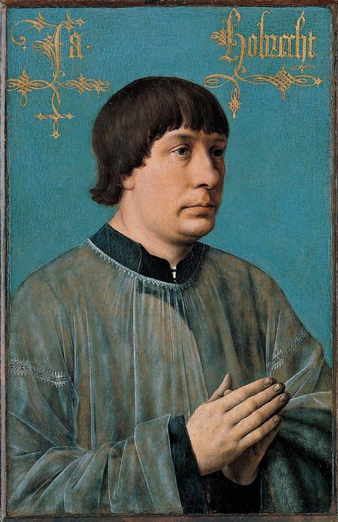 Flemish composer (1458-1505)